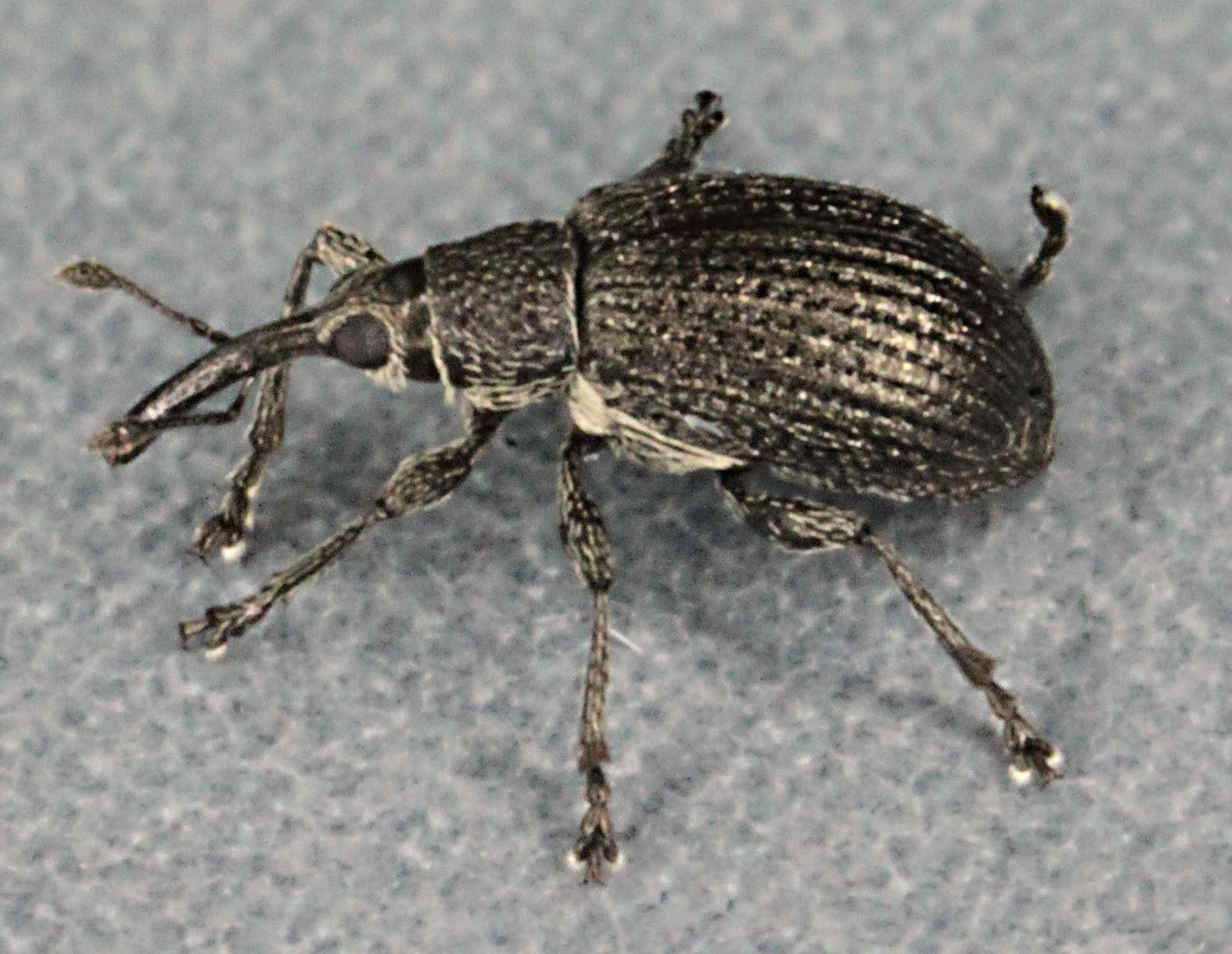 Trichapion simile, Fenn's Moss, North Wales, July 2010